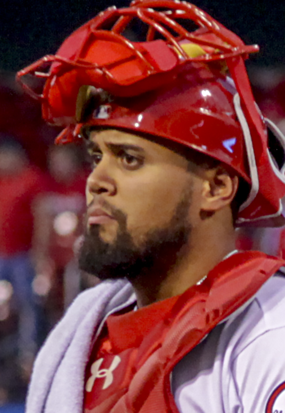 Francisco Pena with the St.Louis Cardinals in 2018.